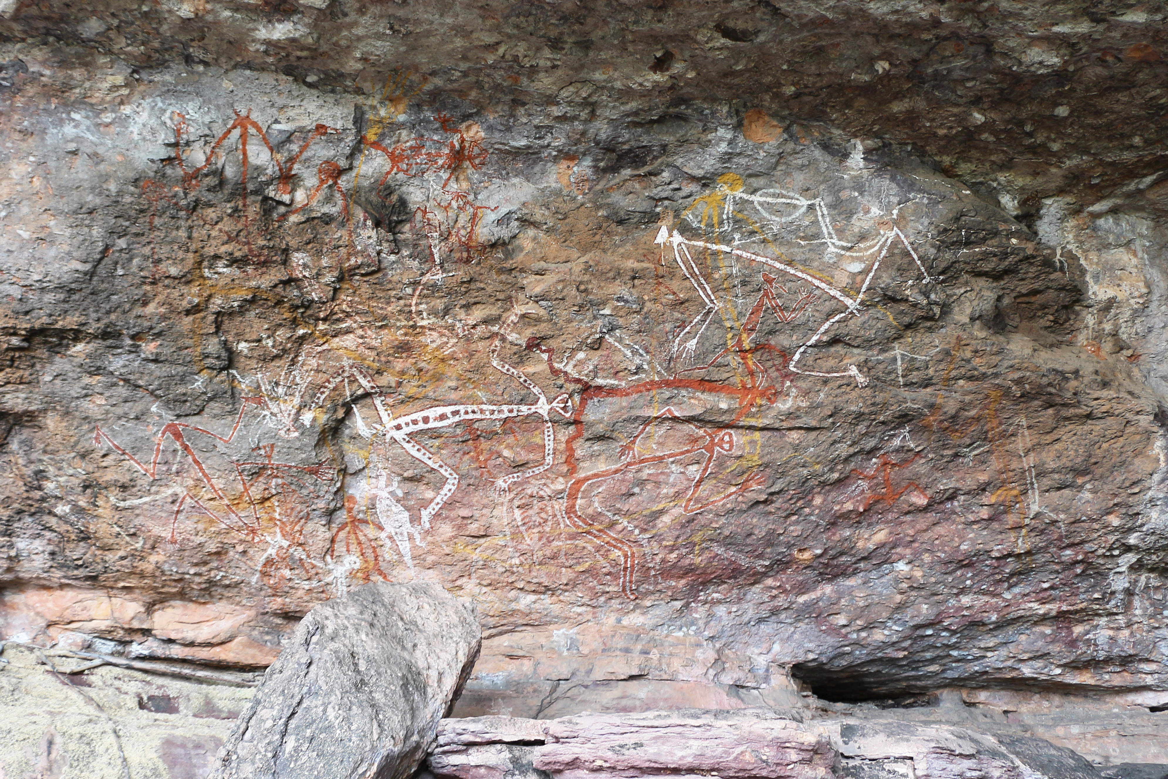 Aboriginal rock art in Anbangdang rock shelter at Nourlangie Rock, Kakadu National Park, Australia